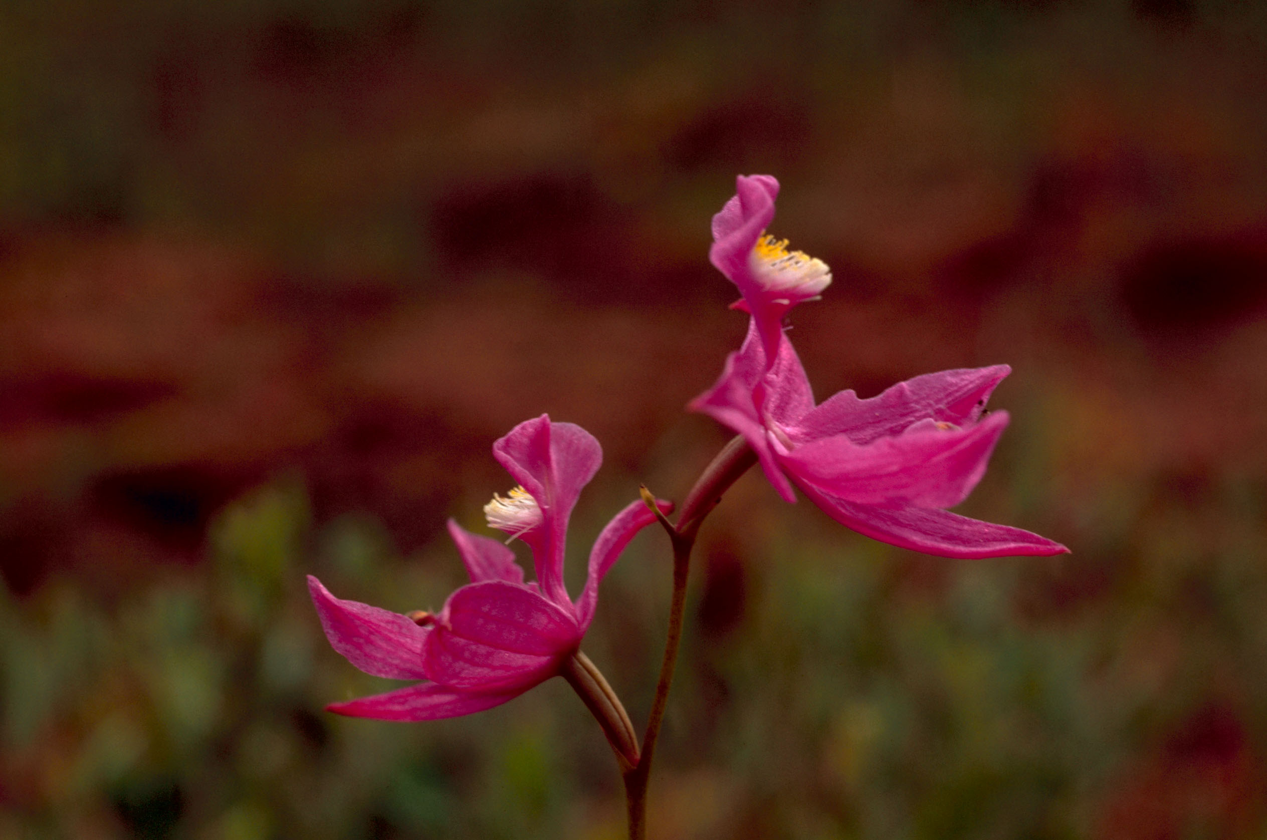 Calopogon tuberosus - wild pink orchid, in New Hampshire Transferred from en.wikipedia (Original text : 22:27, 29 November 2009 (UTC) (original upload date) Original uploader was Mattisse at en.wikipedia